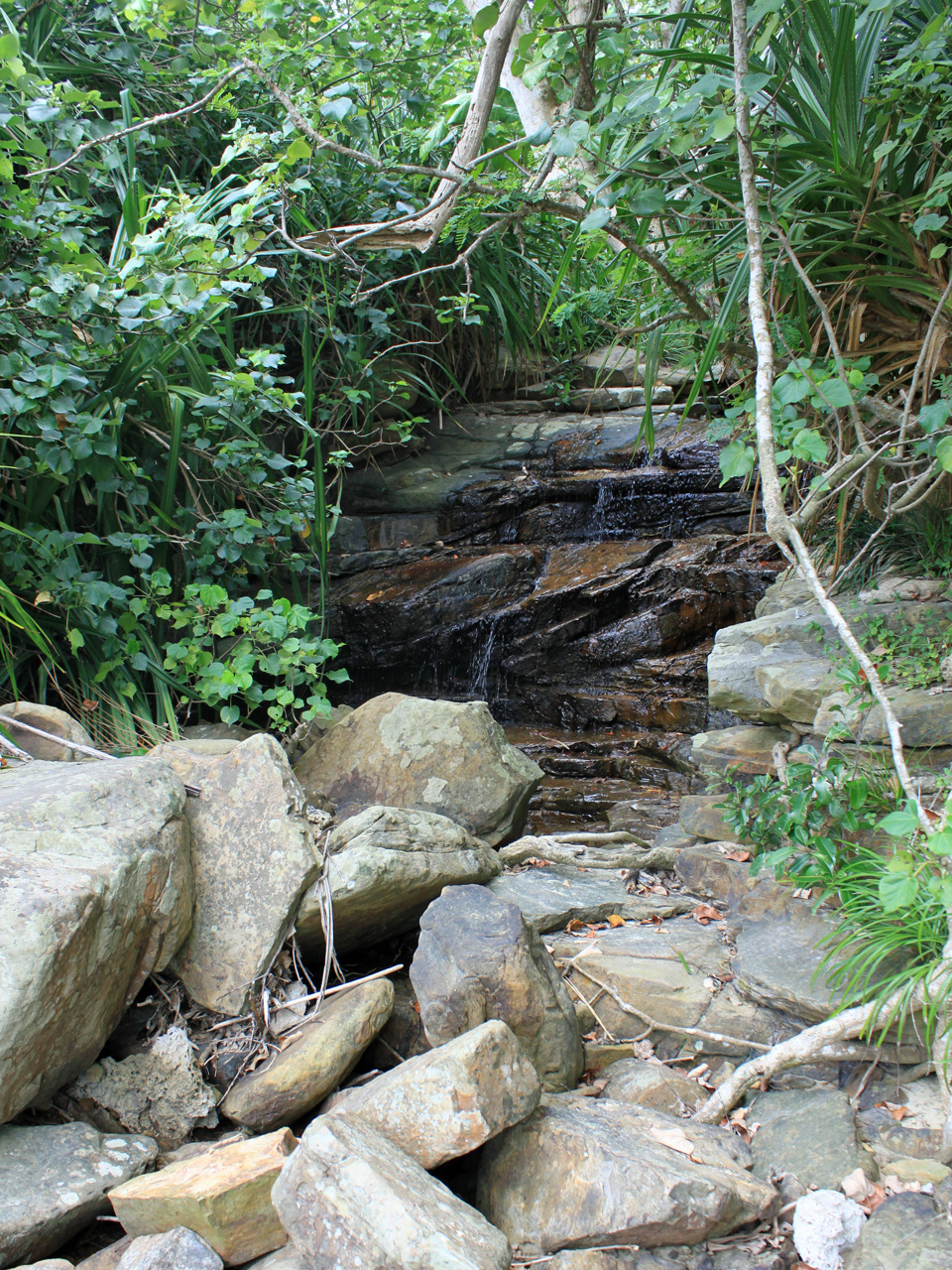 Mare Falls, Iriomote Island, Okinawa, Japan （西表島南風見田にある通称“マーレー”と呼ばれる小さな滝）. the type of Iriomote Cat found at Mare Falls.